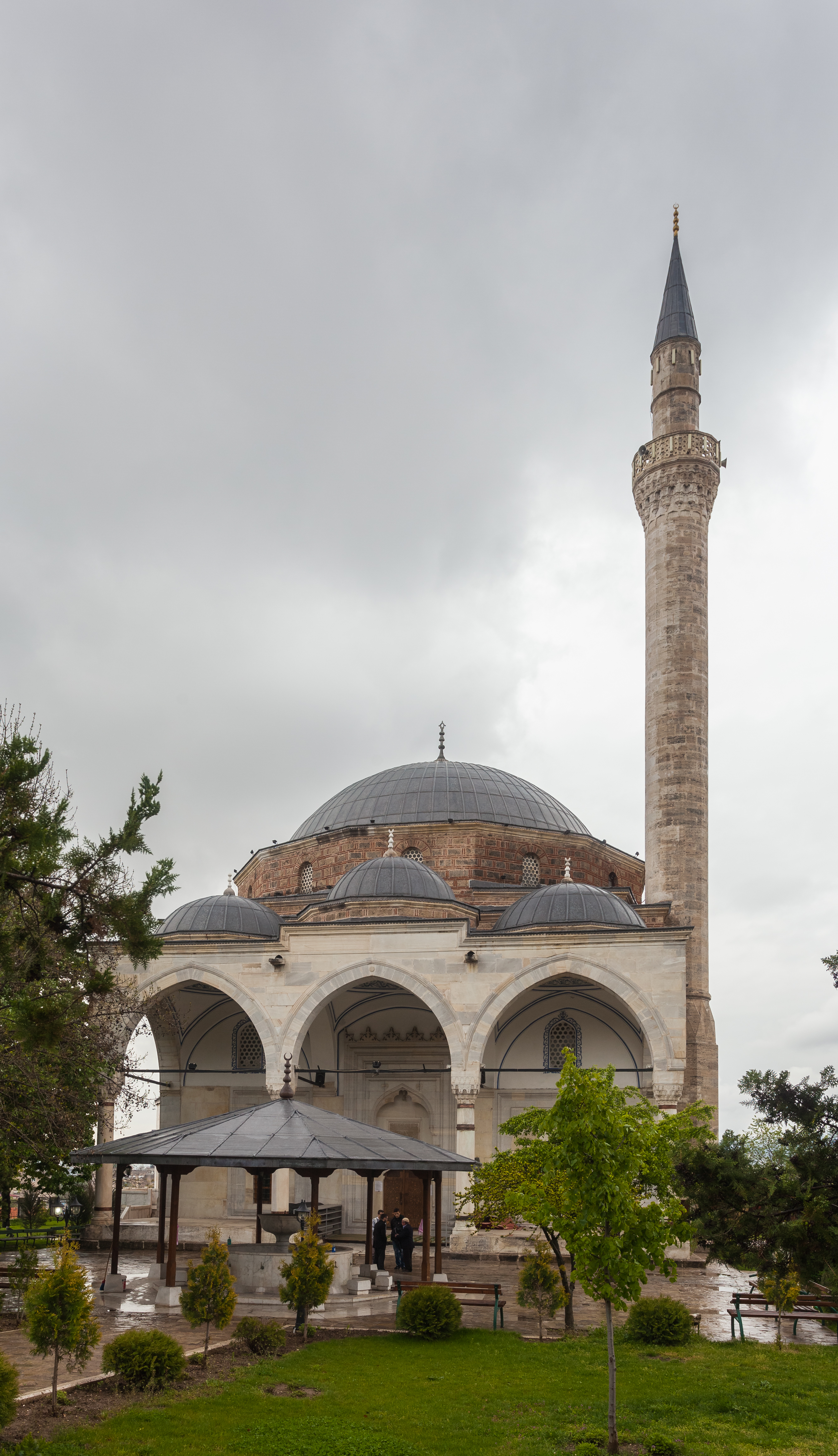 Mustafa Pasha Mosque, Skopje, Macedonia